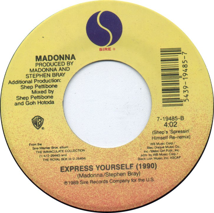 B-side label of U.S. vinyl release of "Express Yourself" by Madonna